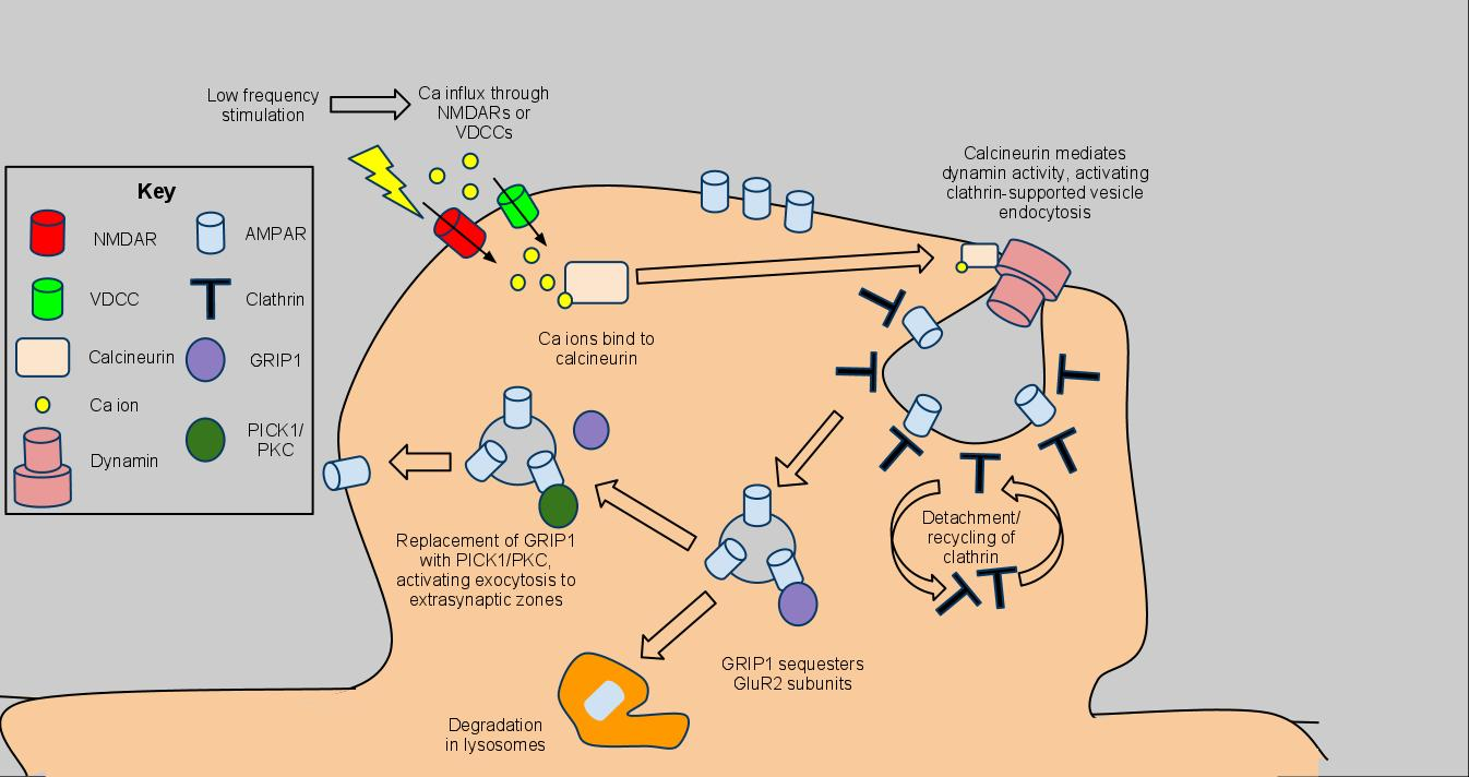 Mechanisms of LTD-induced endocytosis of AMPA receptors in a characteristic dendritic spine.